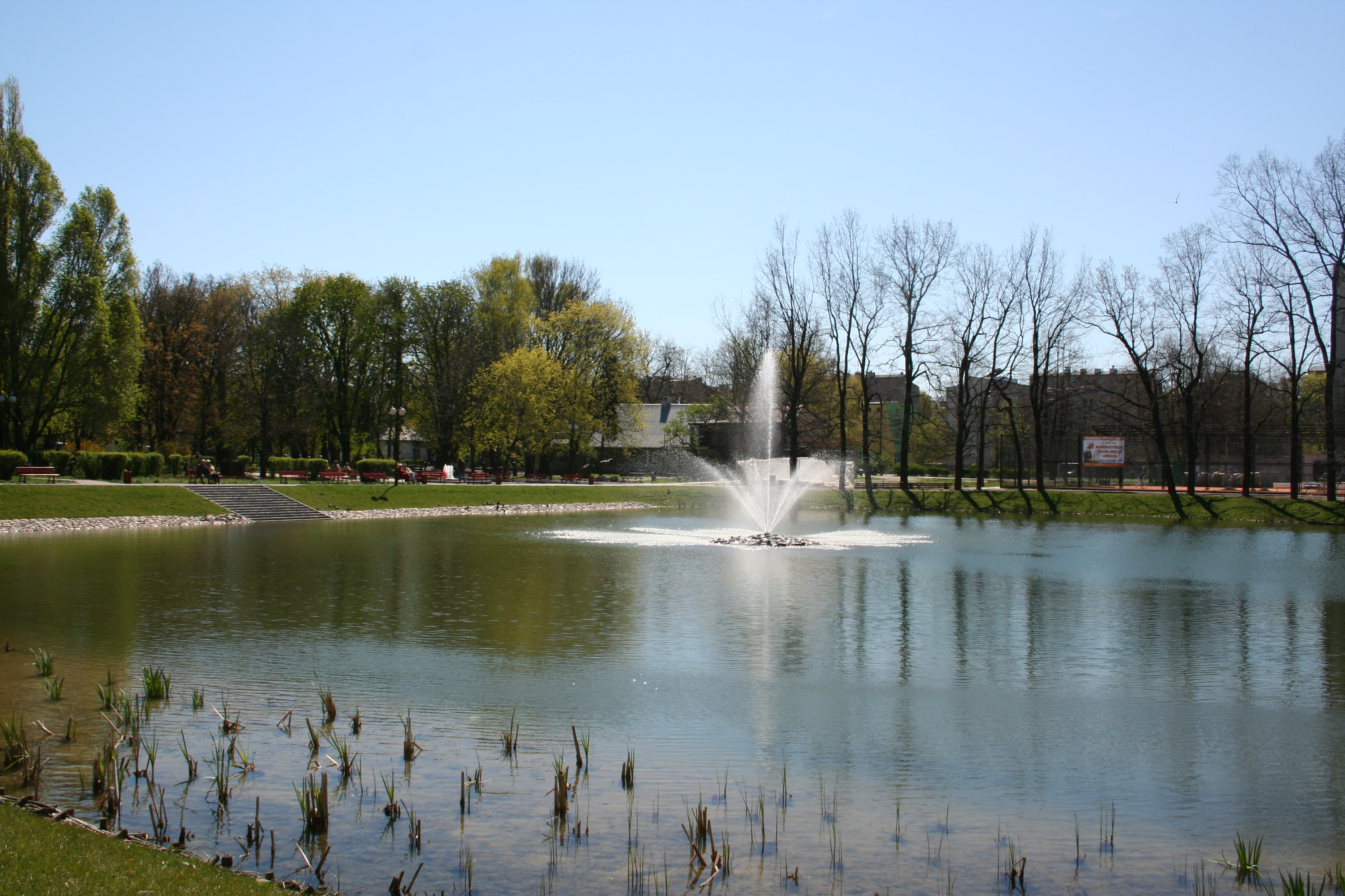 Poland, Warsaw, Ursus, Acher's Park